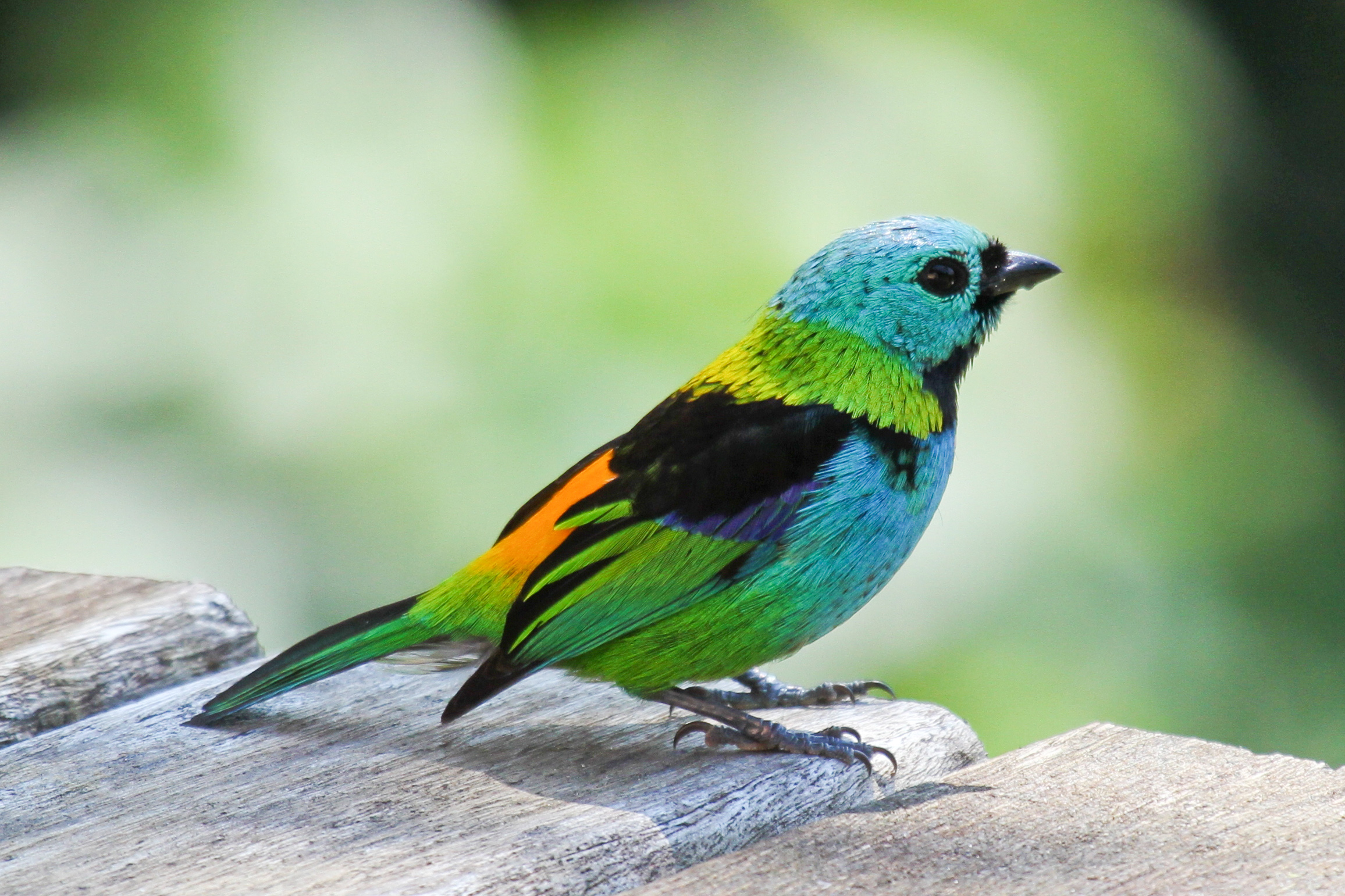 Green-headed Tanager in Ubatuba, Brazil.